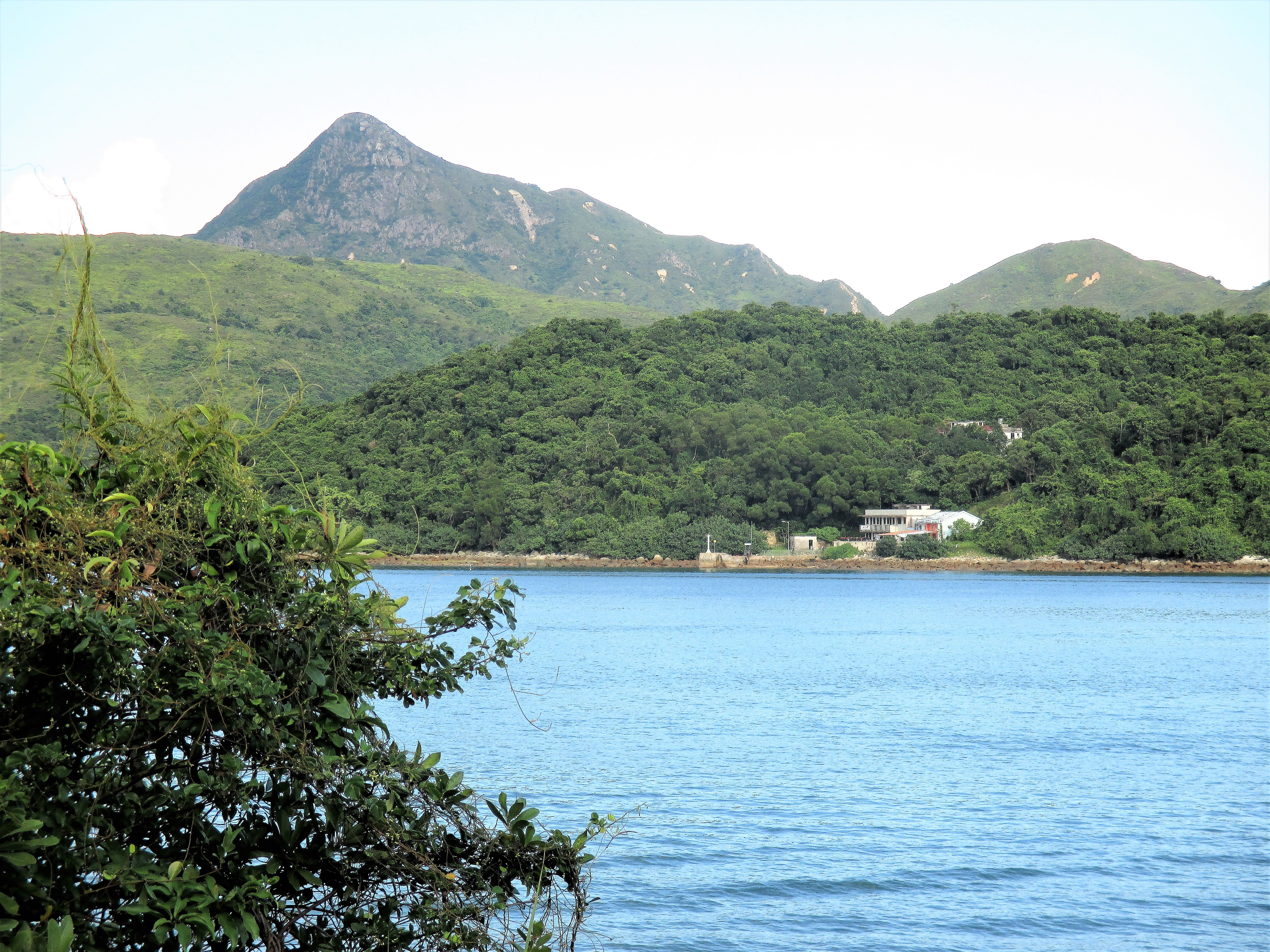 Tung Sam Kei